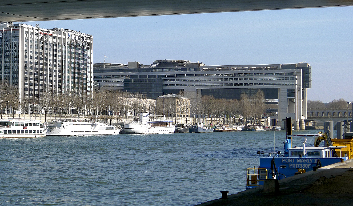 Quai de la Rapée - Paris